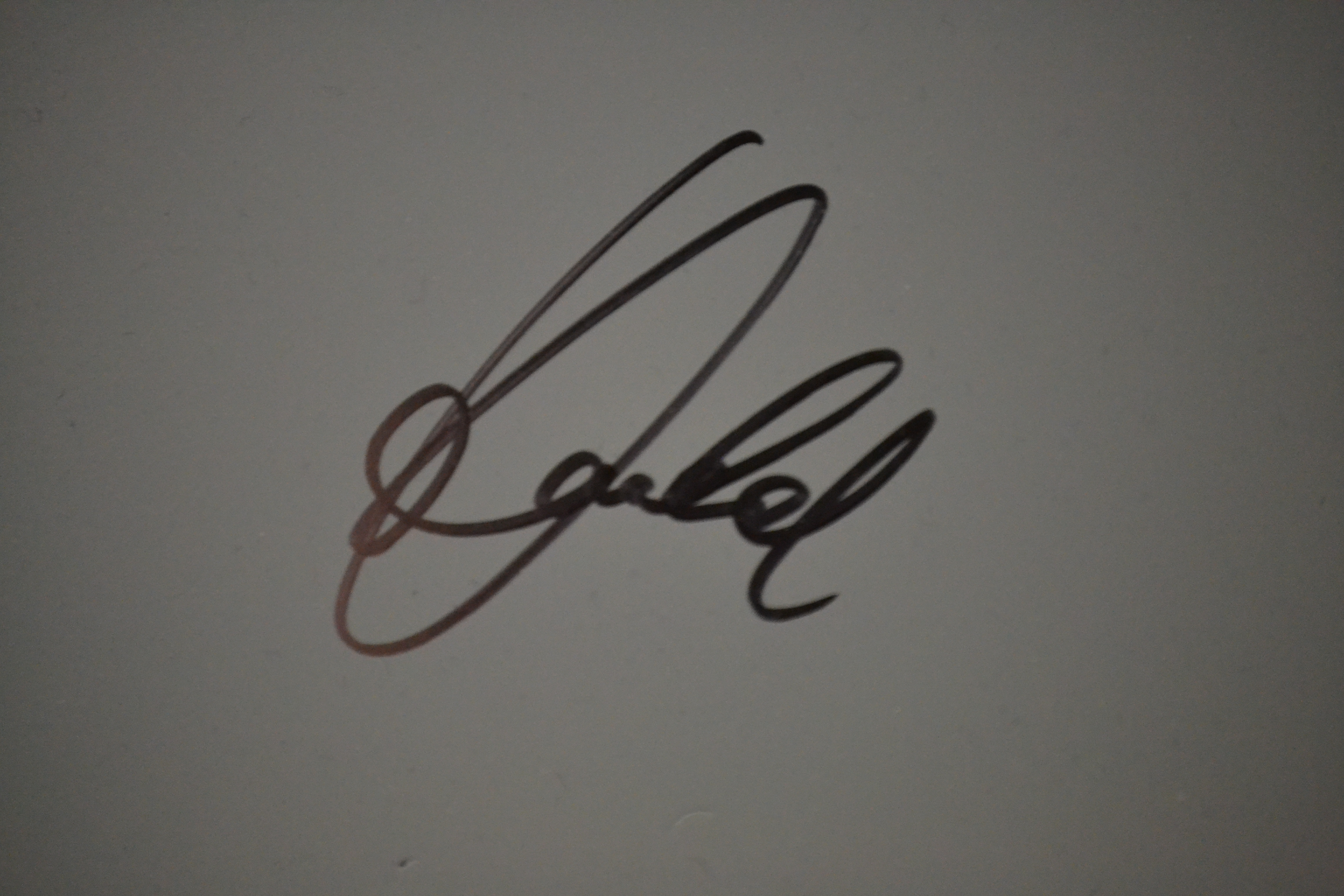 Outfitting the Olympic teams of Germany 2014; Media day January 20th 2014 at Military Airport Erding.